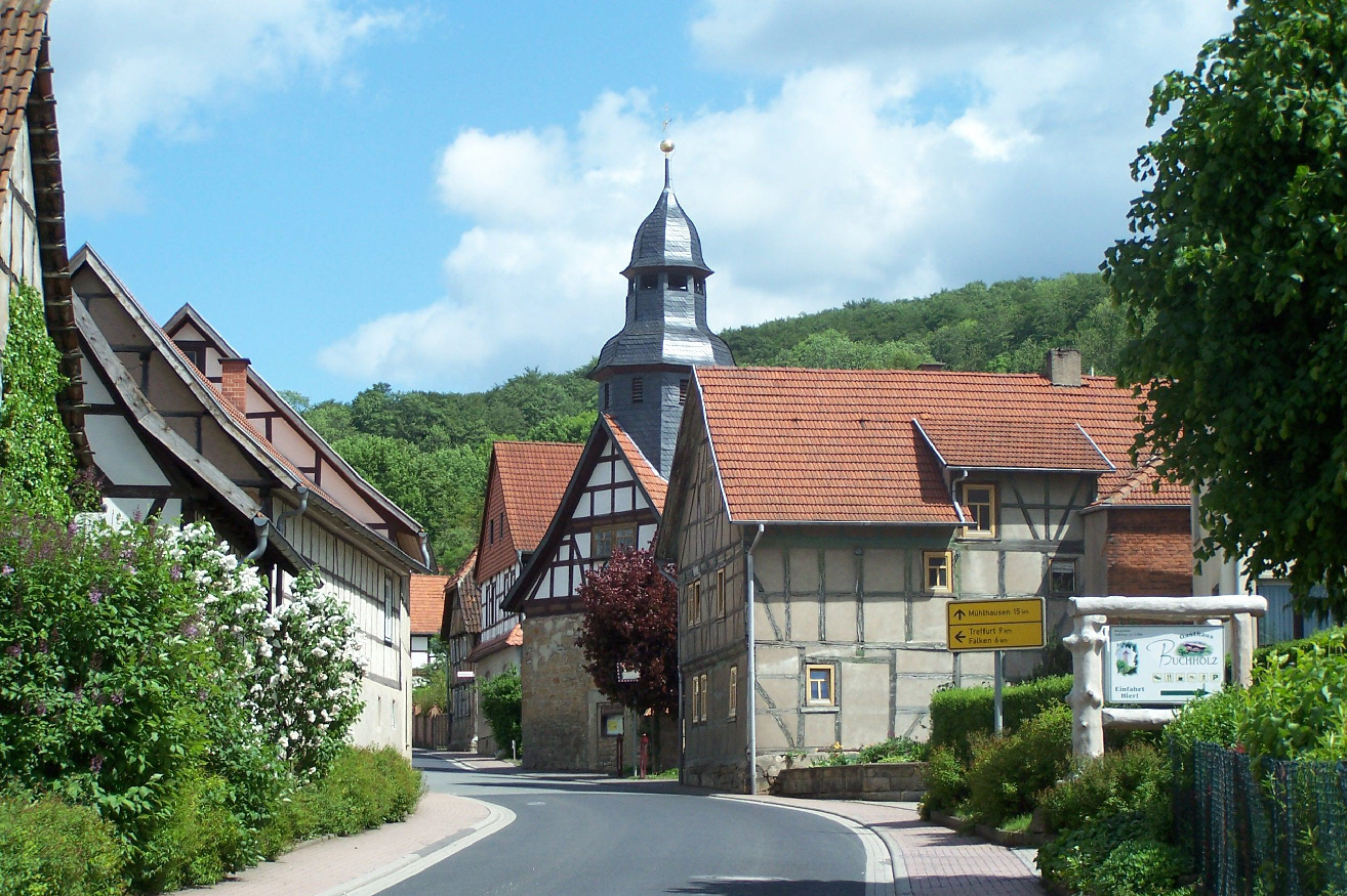 At the church in Nazza village.